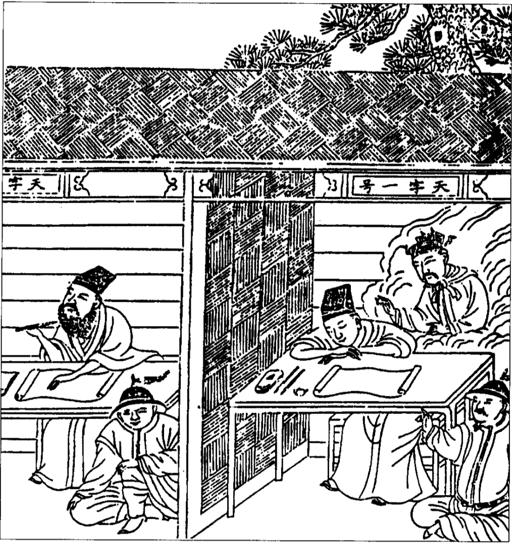 Candidate imperial examination drunk in cell